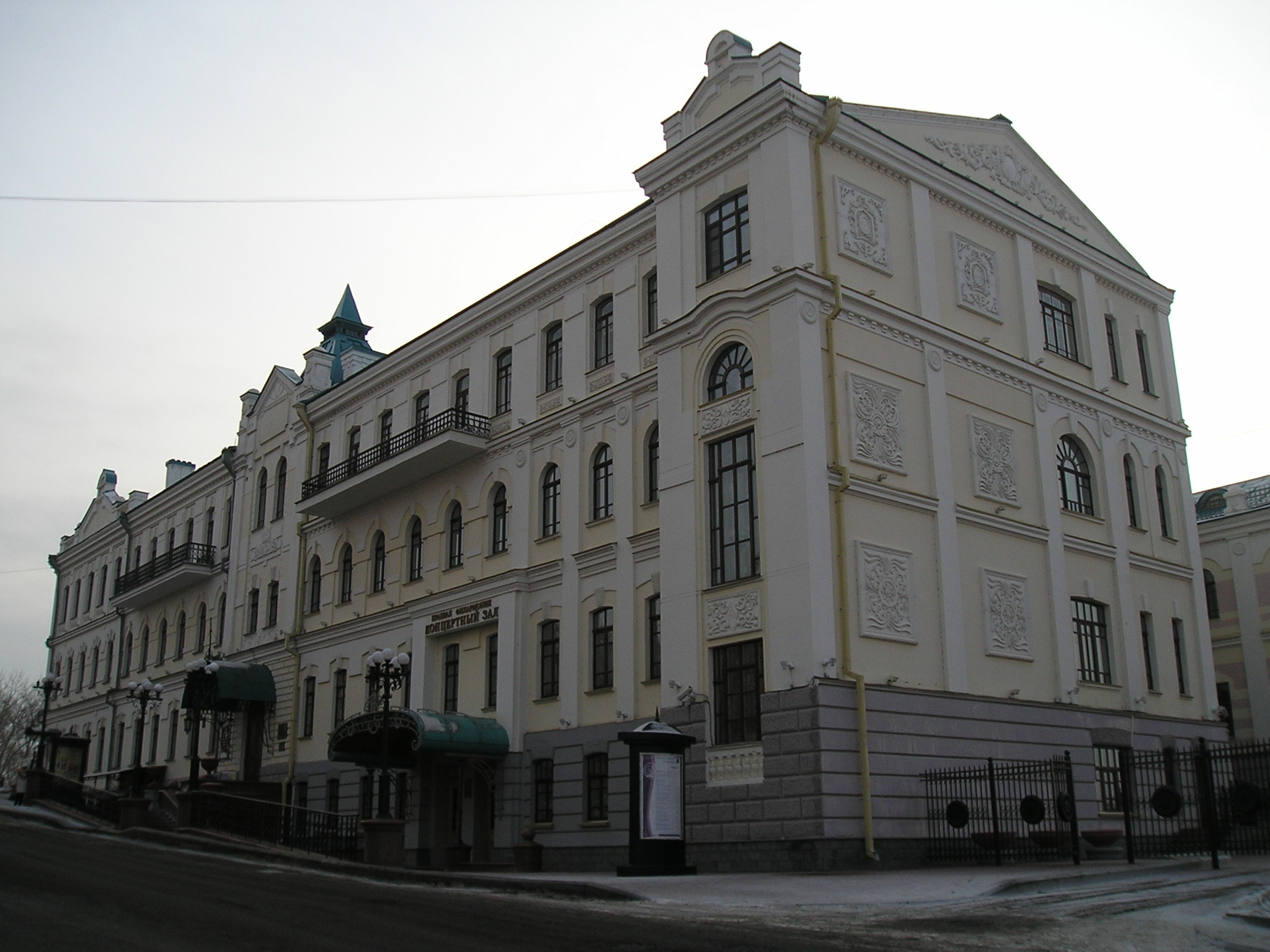 Far Eastern museum of art in Khabarovsk and music hall of Territorial philharmonic